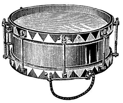 Military drum